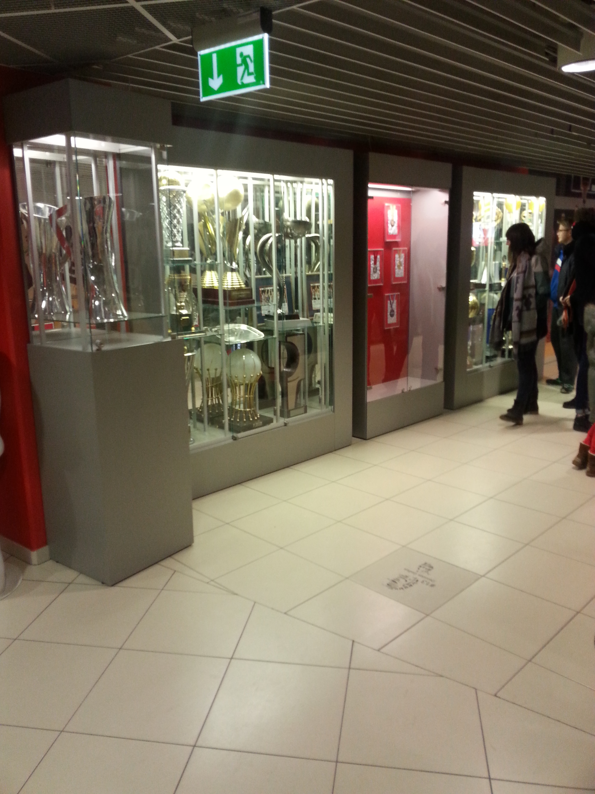 Part of BC Lietuvos rytas Alley of Glory in Siemens Arena, which includes every trophy the club won in its history.